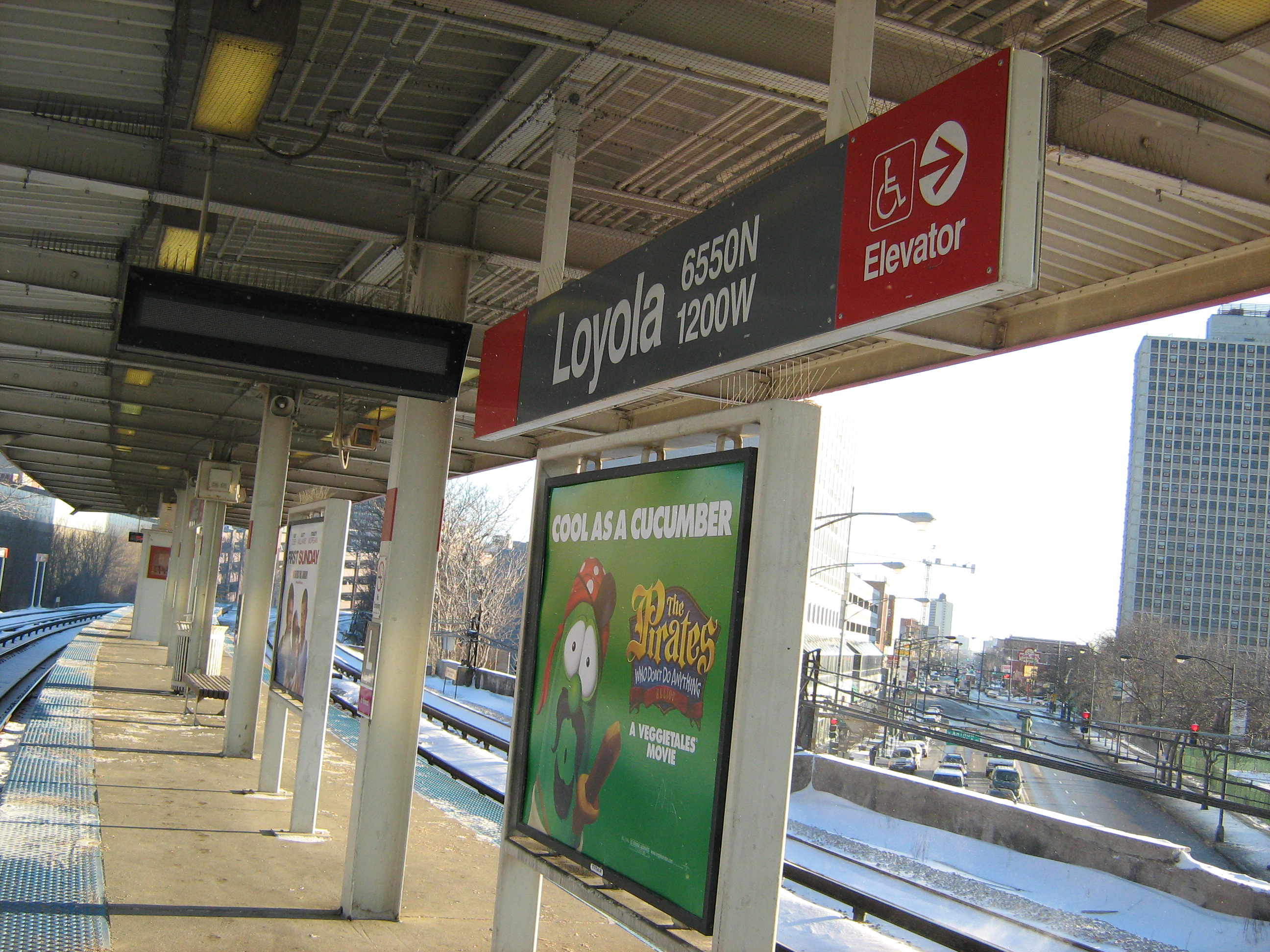 Loyola Avenue & Sheridan Road (6550N/1200W) 1200 W. Loyola Ave Chicago, IL 60626 Red Line (North Main Branch)